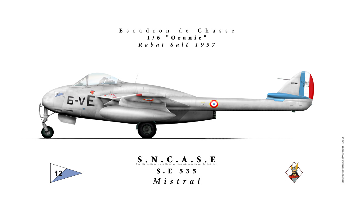 SNCASE SE 535 Mistral escadron "Oranie" French Air Force